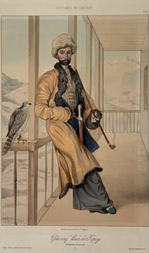 Yusuf-bek, ruler of the Kyurin Khanate.